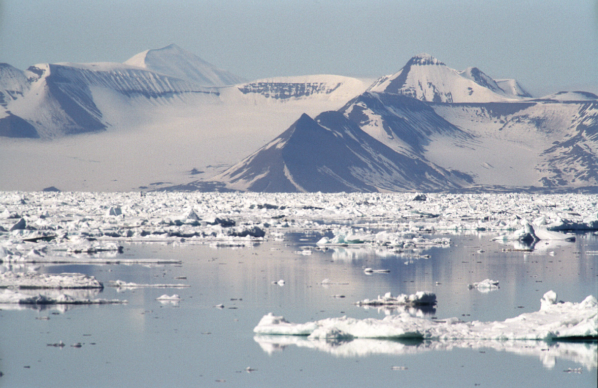 Svalbard (Spitsbergen), Eastern Torell Land, the shores of Storfjorden. From the left, we see the mountain Bellingen, the glacier Bellingbreen, and the mountain Nesaksla. The high mountain-top in the center-right background is Veteryggen.